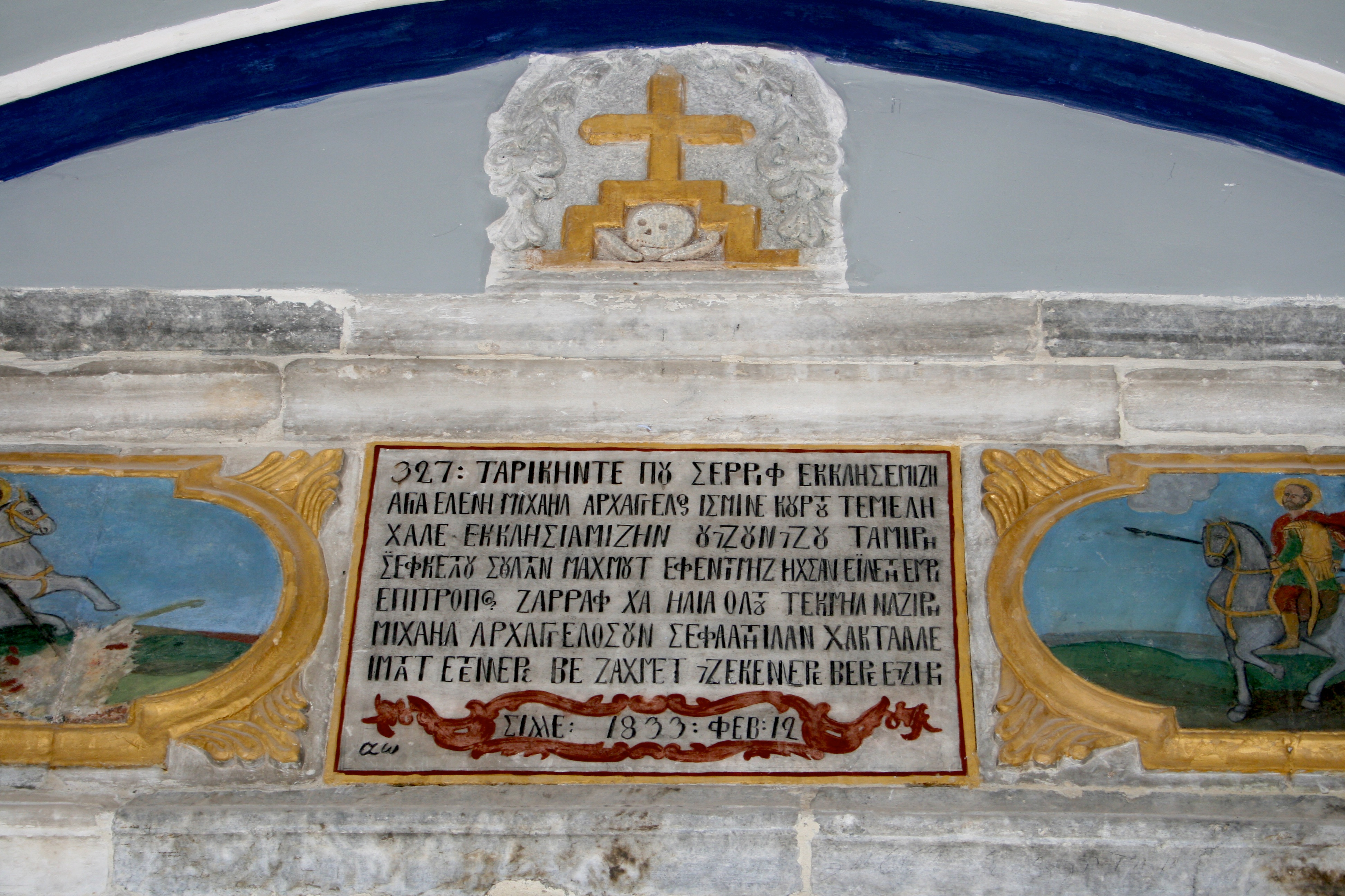 The inscription on the entrance of the former Greek-Orthodox church of Saint Helen (now Aya Elenia Müzesi) in Sille. Dated 12 February 1833, it is written in Karamanli Turkish (a form of Turkish written with Greek script). Transcription into Latin script: 327: tarihinde bu serrif (şerif) ekklisemizi (kilisemizi) Agia Eleni Mihail Arhangelos ismine kurdu temeli / hale ekklisiamizin (kilisemizin) üçüncü tamiri / Şefketlu Sultan Mahmud efendimiz ihsan eyleti emri / Epitropos Zarraf Xa (Hacı) Ilia oldu tekmil nazırı / Mihail Arhangelos'un sefaatiilan (şefaatı ile) Hak Taale / imdat edenlere ve zahmet çekenlere vere eciri. Sille 1833 Feb 12